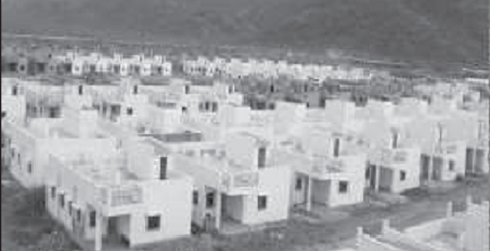 This is a model of houses which is done by urban development department.